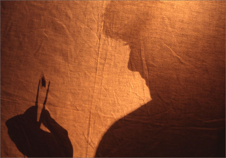 The shadow of an Entomologist and a Moth cast on a collecting sheet.